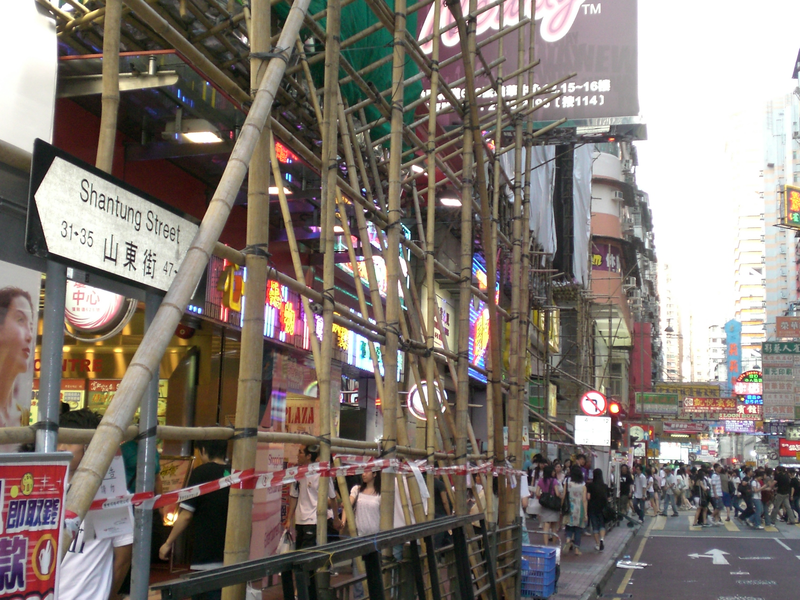 旺角zh:山東街